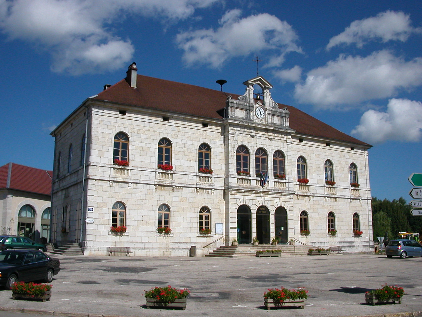 Town hall of Levier